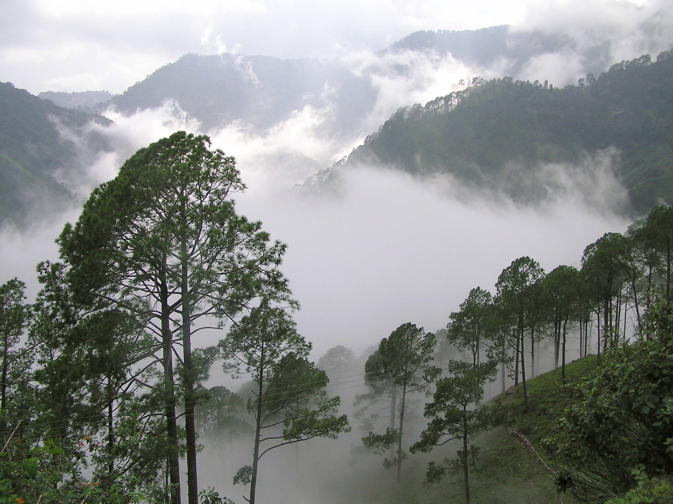 Pinus roxburghii, Nainital Hills, India